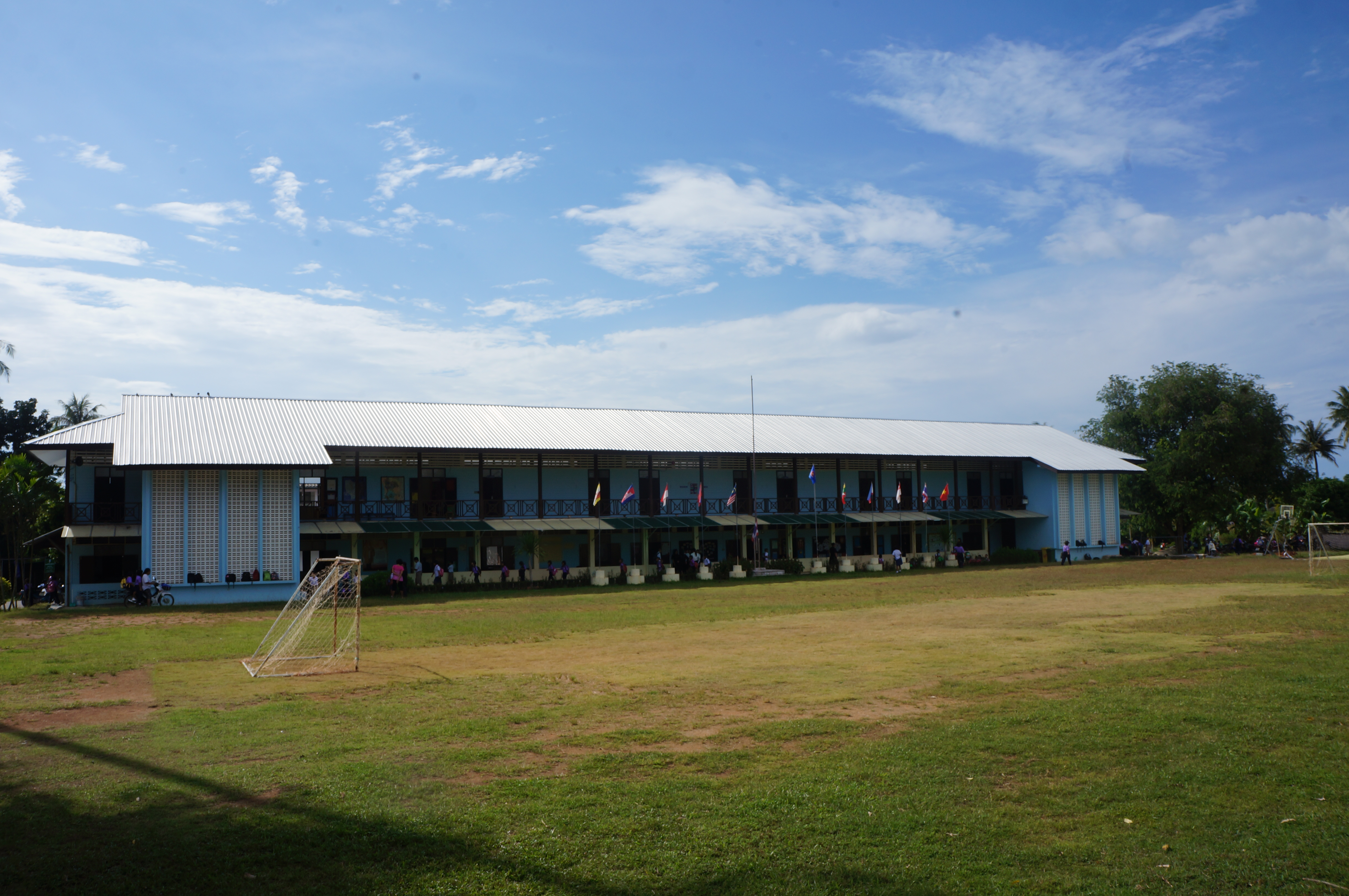 201701 Ban Mai Khao School. A black-white portrait of His Majesty Bhumibol is stood in the center of the roadside of the grass field